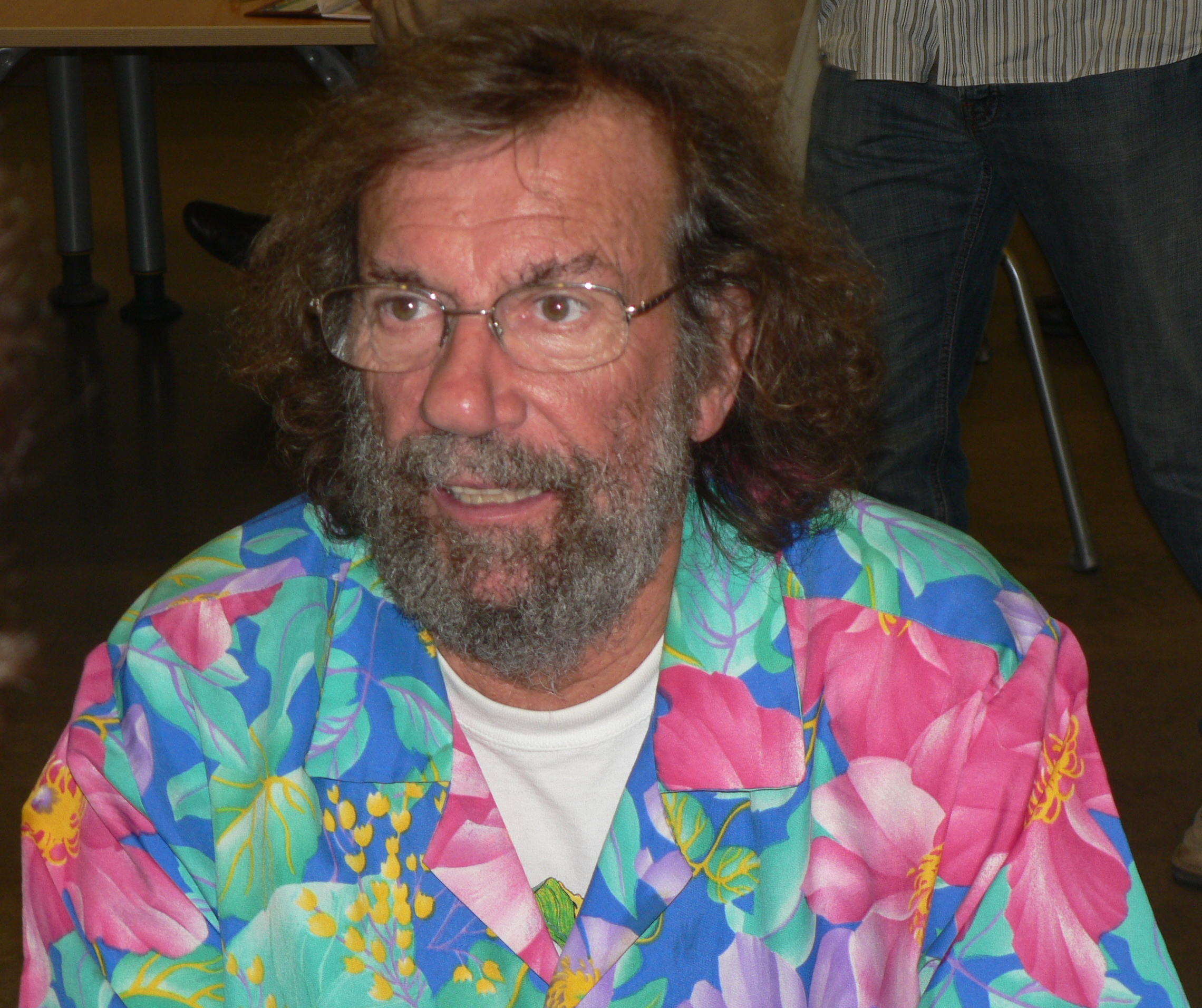 Antoine (Pierre Antoine Muraccioli), French singer, signing autographs at a movie presentation in Grenoble, France